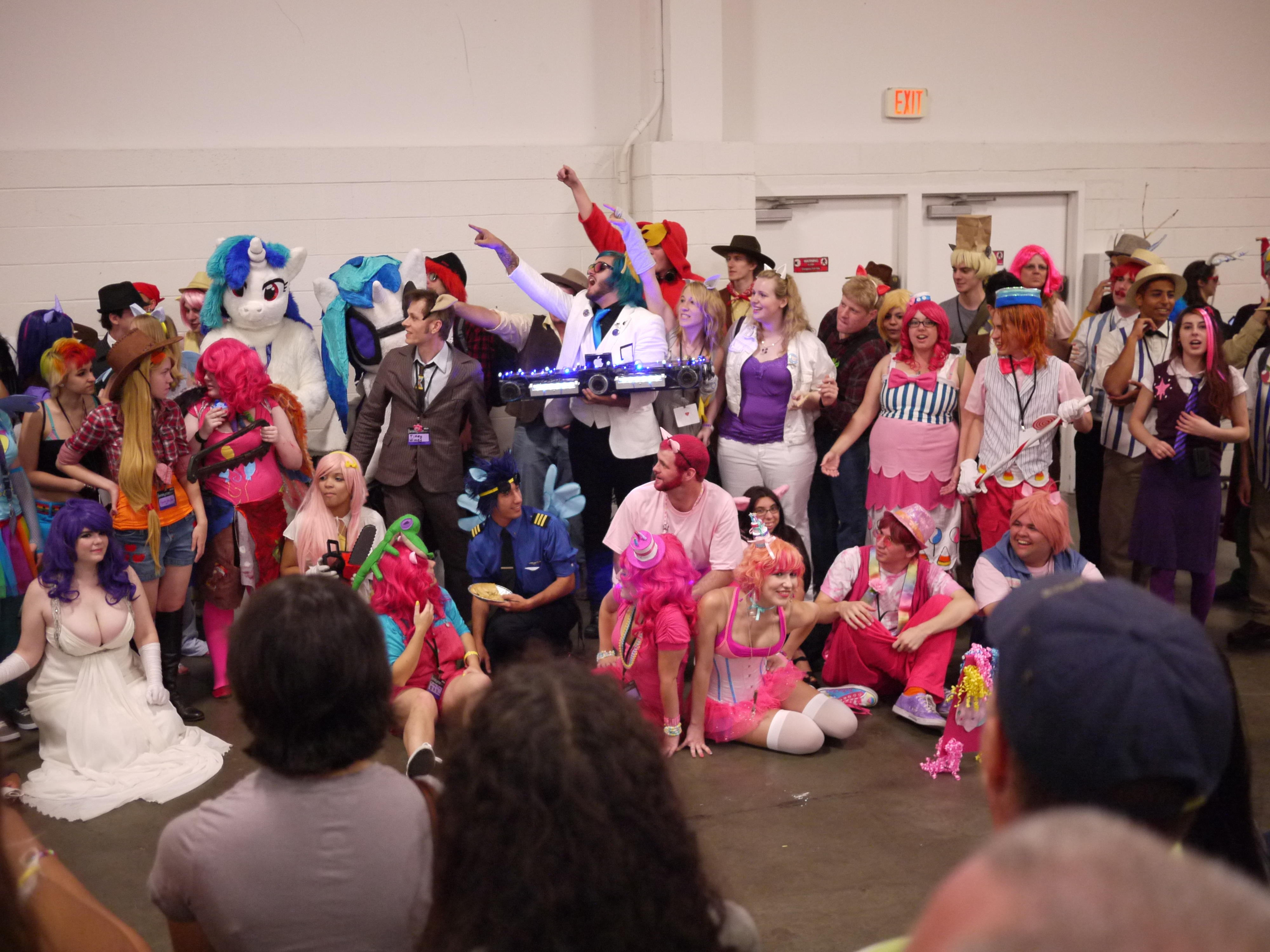 This was a hand-held shot, over a lot of people's heads, so...